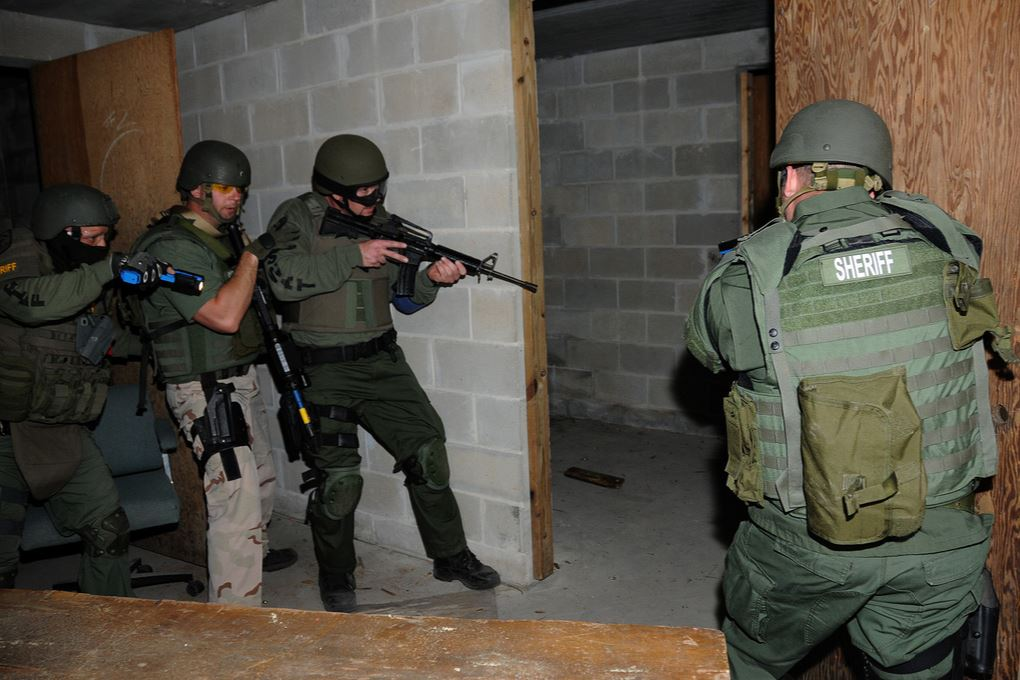 The Florida National Guard Counterdrug Program provided free training facilities to members of the U.S. Marshals Service at the Multijurisdictional Counterdrug Task Force Training Tactical (MCTFT-T) campus located at Camp Blanding Joint Training Center in Starke, Fla., Feb. 25. Florida SWAT Association instructors provided training intended to prepare team members with the ability to give emergency combat first aid while in a tactical situation.